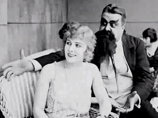 Edna Purviance, Eric Campbell, Chaplin directing